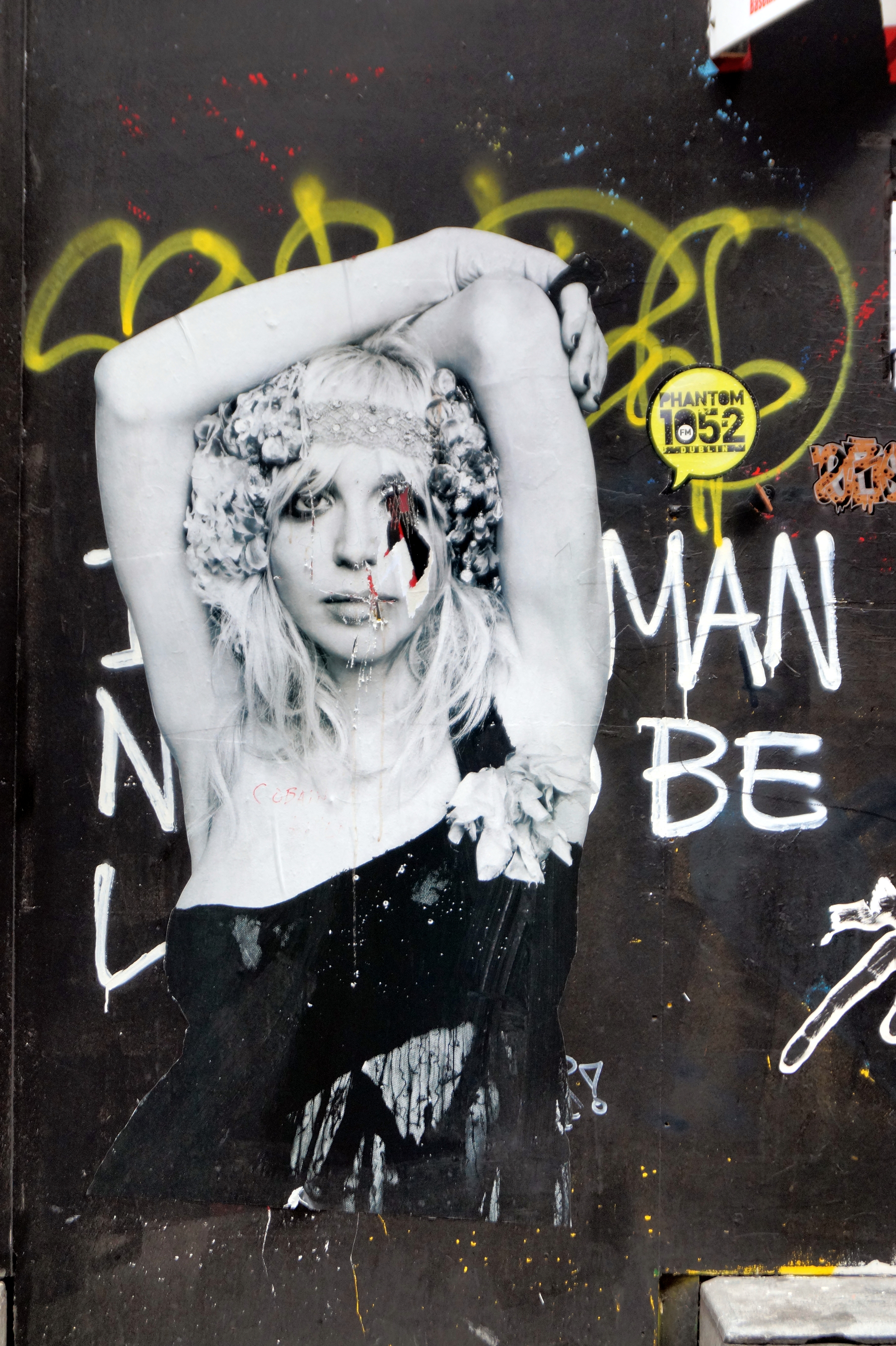 Street art featuring Courtney Love in Dublin